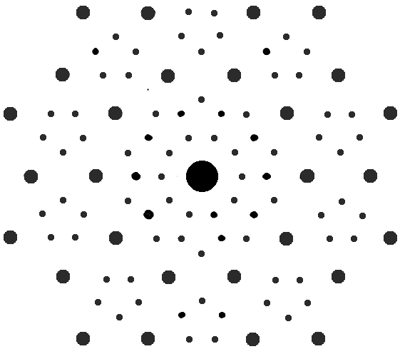 Diffraction pattern of the natural Al63Cu24Fe13 quasicrystal icosahedrite found in the Khatyrka meteorite. Redrawn after Bindi, Luca; Paul J. Steinhardt, Nan Yao, Peter J. Lu (2009-06-05). "Natural Quasicrystals". Science 324 (5932): 1306–9. PMID 19498165. Retrieved on 2009-08-07.